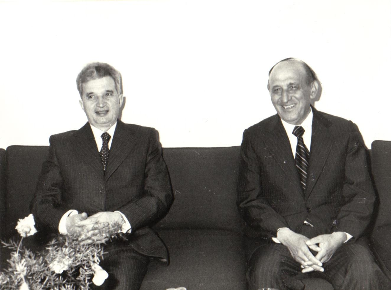 Invited by Todor Zhivkov, first secretary of the central committee of the Bulgarian Communist Party, President Nicolae Ceauşescu made a friendly visit to the People's Republic of Bulgaria. Talks between Nicolae Ceauşescu and Todor Zhivkov.